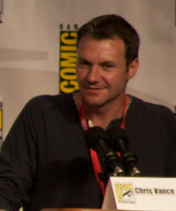 "Burn Notice" Actor Chris Vance. San Diego 2010 Comic-Con International.